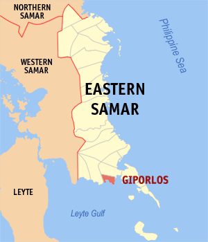 Map of Eastern Samar showing the location of Giporlos